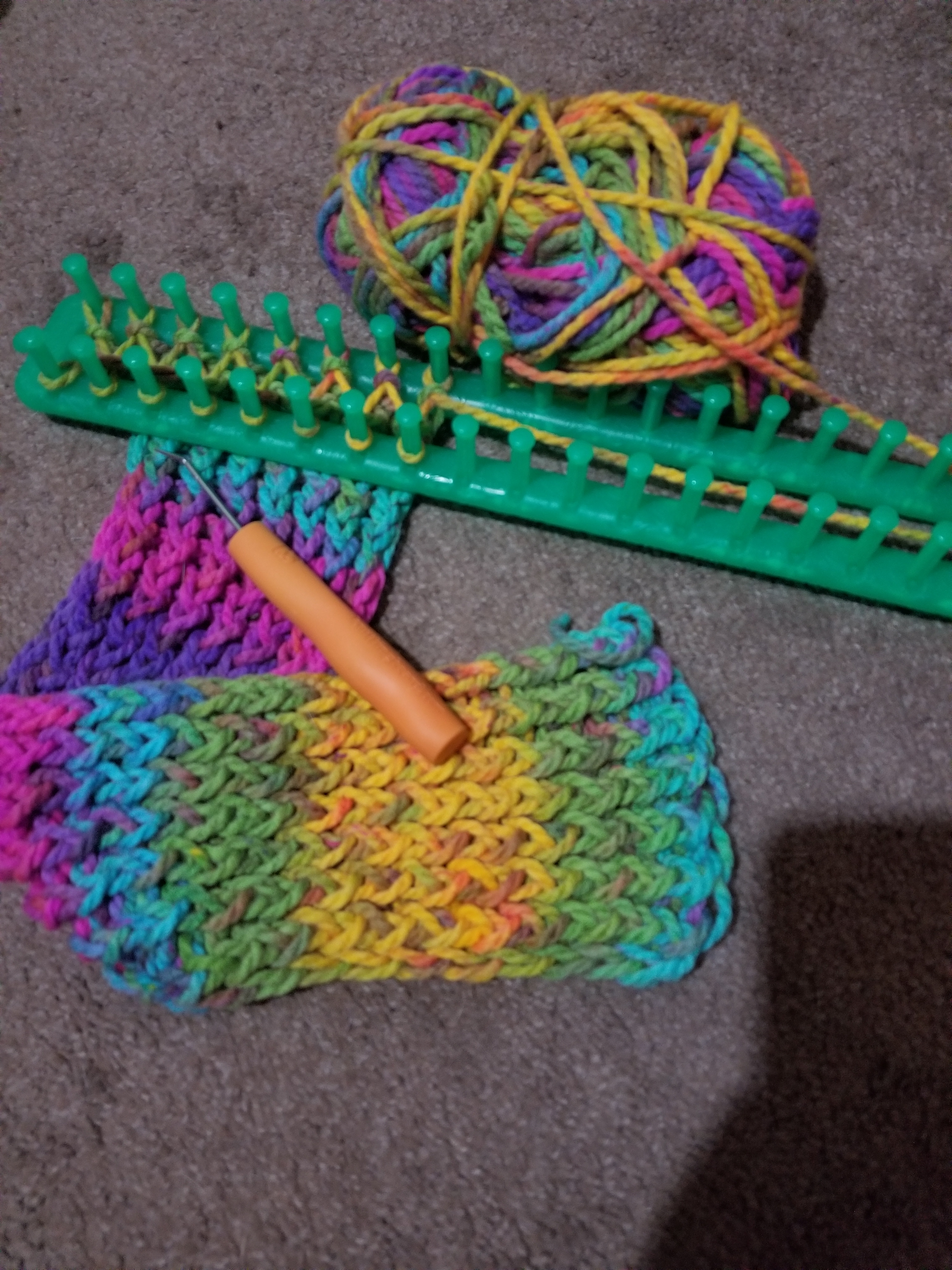 A loom and the start of a scarf